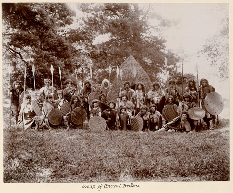 Ffotograffydd/Photographer: P. B. Abery (1877?-1948) & Wallace Jones Dyddiad/Date: 11th August 1909 Cyfrwng/Medium: Photographic print Cyfeiriad/Reference: pba01917 Rhif cofnod / Record no.: 3590090 This image is taken from the Builth Wells Historical Pageant photograph album, which includes approximately 160 photographs, newspaper cuttings and other ephemera of the majestic pageant which was performed at the grounds of Llanelwedd Hall on 11 August 1909. The photographs were taken by P B Abery and Wallace Jones. The pageant was an epic production. According to a transcript included in the album, it took a year to prepare, over a 1000 people took part in the event, and it is reported to have been witnessed by a crowd of around 5000. Daw'r ffotograff yma o lyfr ffoto Pasiant Llanfair ym Muallt, sy'n cynnwys tua 160 o ffotograffau, toriadau’r wasg ac effemera sy’n ymwneud â’r pasiant mawreddog a berfformiwyd ar faes Neuadd Llanelwedd ar 11 Awst 1909. Tynnwyd y ffotograffau gan P B Abery a Wallace Jones. Roedd y pasiant yn ddigwyddiad ysblennydd. Yn ôl adysgrif sydd wedi ei chynnwys yn yr albwm, cymerodd flwyddyn i baratoi’r digwyddiad, bu 1000 o bobl yn rhan o’r paratoadau, ac adroddir fod tyrfa o tua 5000 yn ei wylio. Rhagor o wybodaeth am gasgliad P B Abery yn Llyfrgell Genedlaethol Cymru More information about the P B Abery Collection at the National Library of Wales